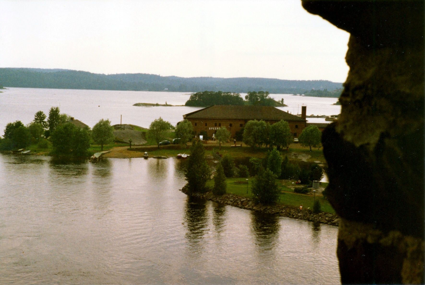 Olavinlinna in Savonlinna, Finland – View from the castle westwards to Pihlajavesi lake (1979)